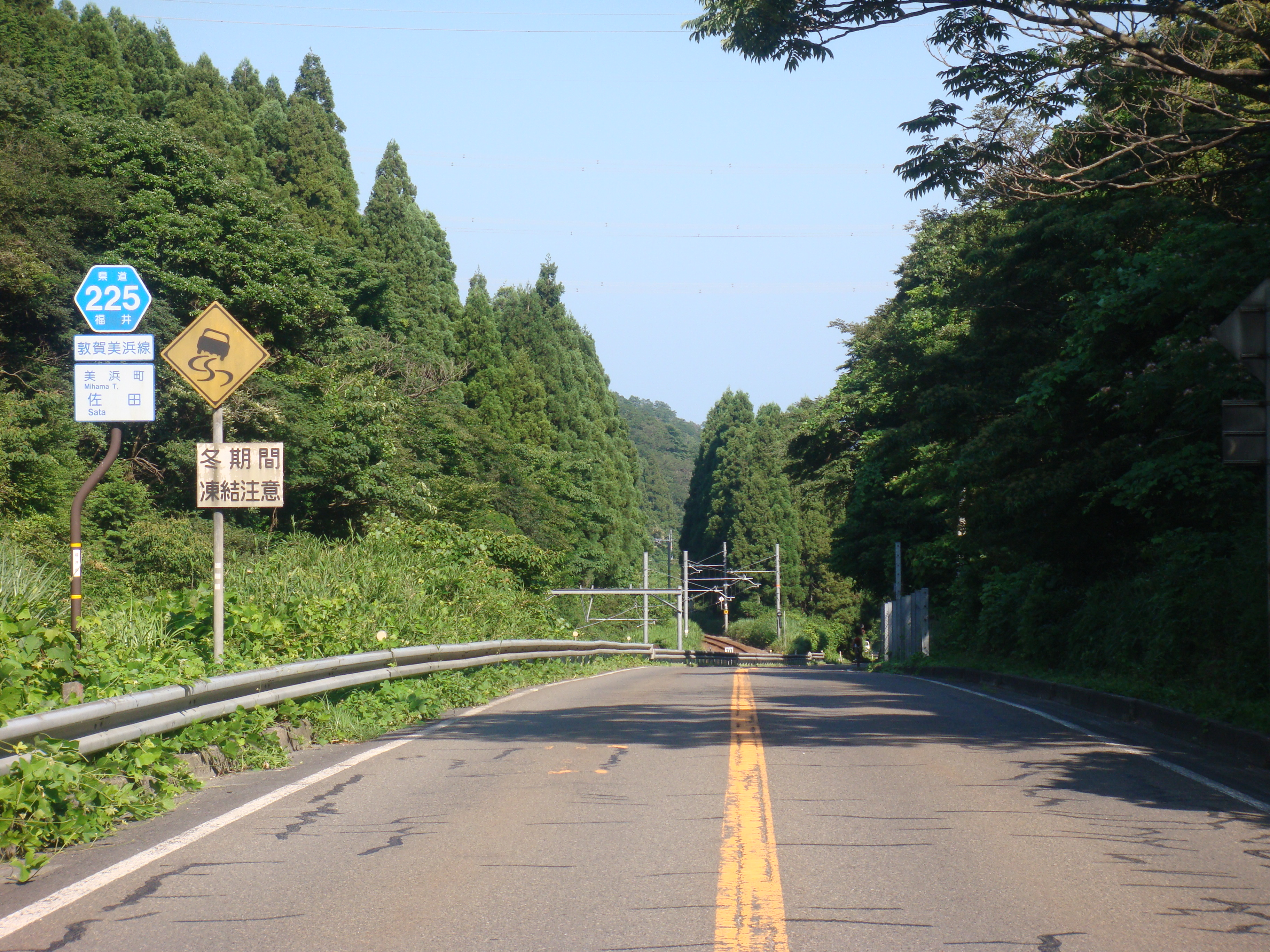 Fukui Prefectural Road Route 225（Tsuruga-Mihama Line） Seki Pass The meaning of the left signboard: The winter season,Beware of Icy Roads Place - Sata,Mihama Town,Mikata County,Fukui Prefecture,Japan Date - July 16, 2011 Format - JPEG, 3648x2736pixel, 24bit colors Photographer - NALA Wiki (talk)